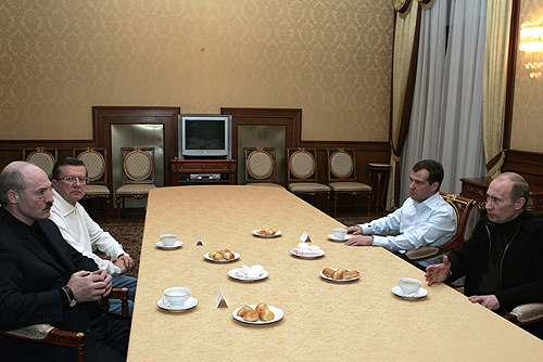 SOCHI. With President of Belarus Alexander Lukashenko, Prime Minister Viktor Zubkov and First Deputy Prime Minister Dmitry Medvedev (from left to right) at the Bocharov Ruchei presidential residence.